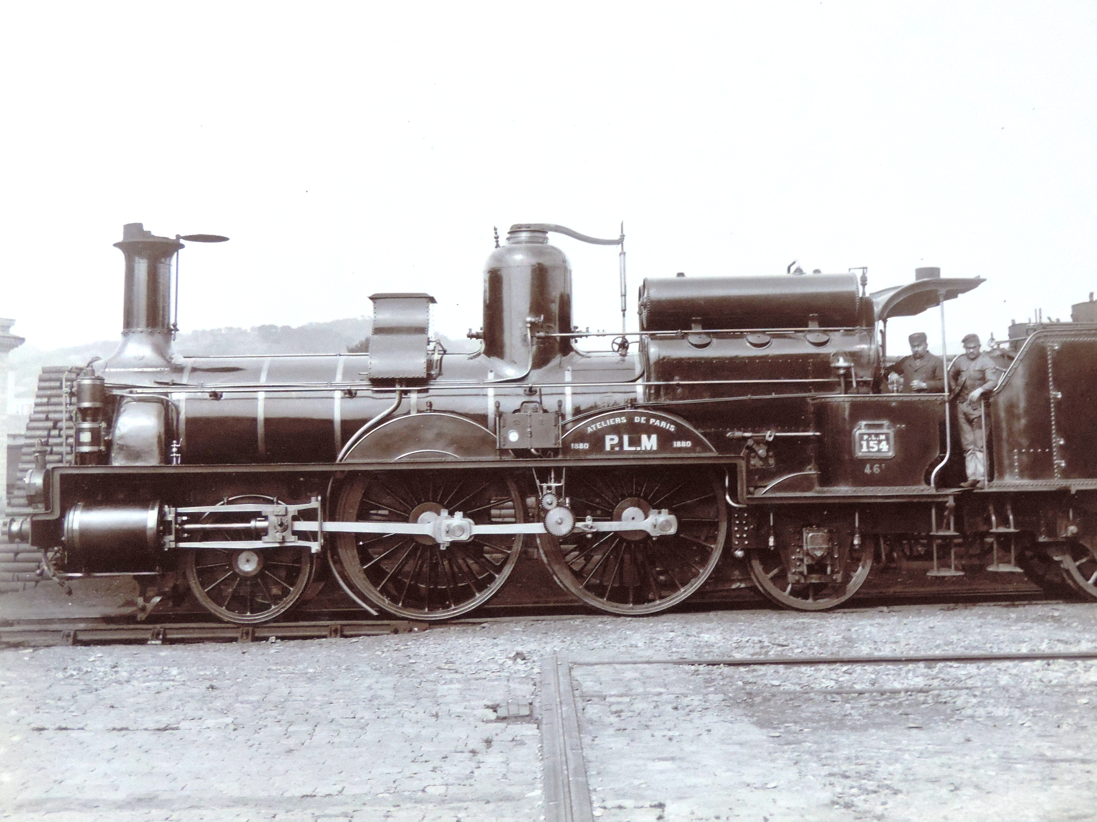 PLM No. 154, 111-series 2-4-2. Built by PLM’s Paris Works (no. 304 of 1880). Rebuilt as 0-8-0T locomotive No. 7702 (later 4.AM.2) in 1922.